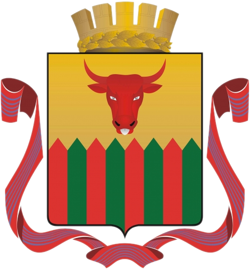 Coat of arms of Chita.